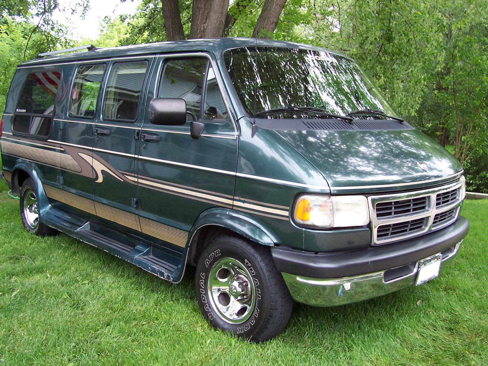 Profile view of 1994 to 1997 model year Dodge Ram Van, to fit with IFCAR's images of 1971-1993 and 1998-2003 Ram Vans.